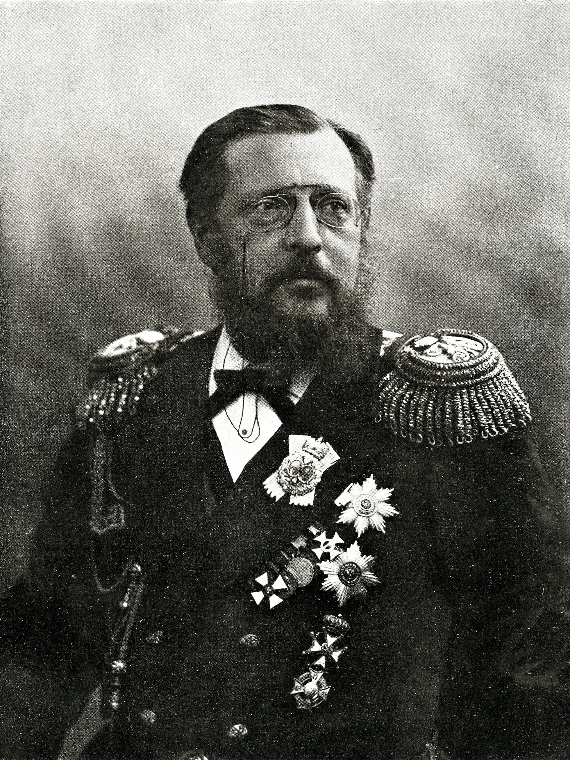 Grand Duke Konstantin Nikolayevich of Russia (21 September 1827 – 25 January 1892) was the second son of Tsar Nicholas I of Russia and younger brother of Tsar Alexander II.